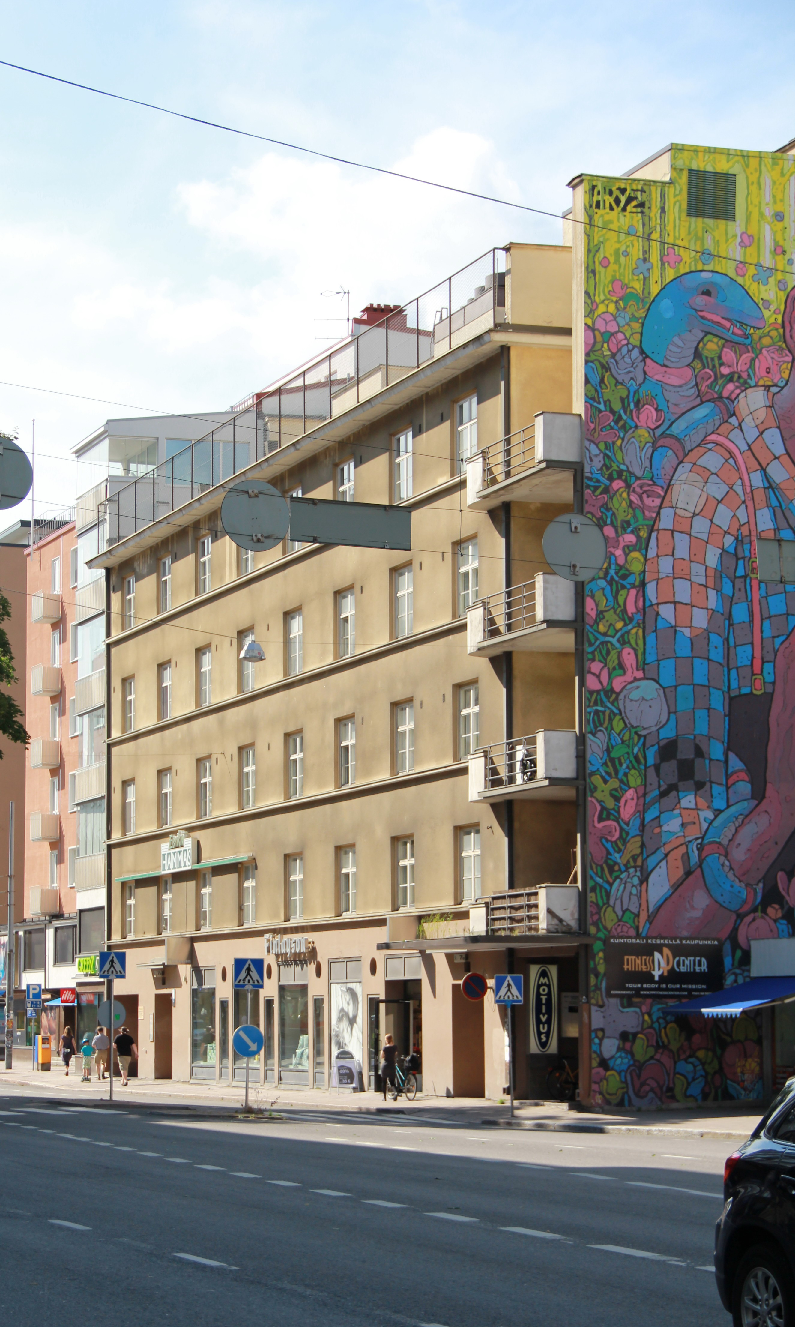 Turun Lintula, an apartment house. Turku, Finland. Completed in 1932, architect Albert Richardtson.